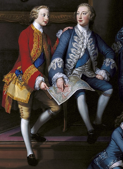 From File:The_Family_of_Frederick,_Prince_of_Wales.jpg